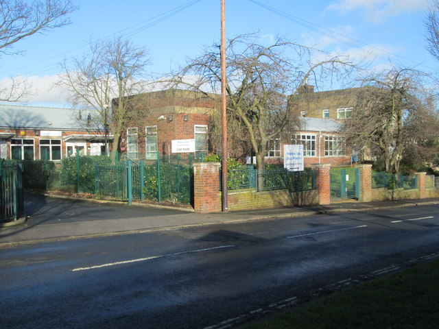 Meadow Vale Group Practice - Nursery Lane